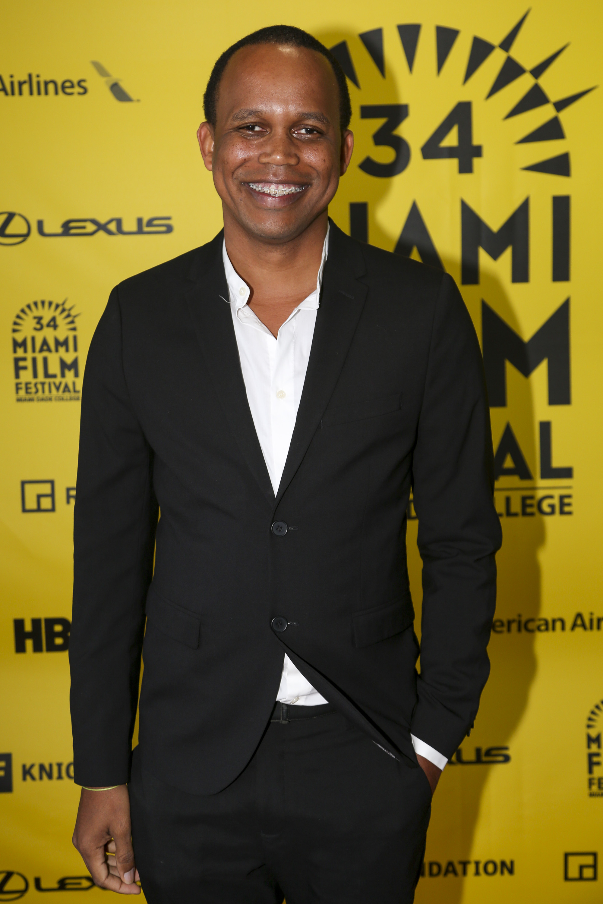 Director Kareem J. Mortimer at the 2017 Miami International Film Festival showing of Film: Cargo at Regal Theater during Miami Film Festival on March 5, 2017